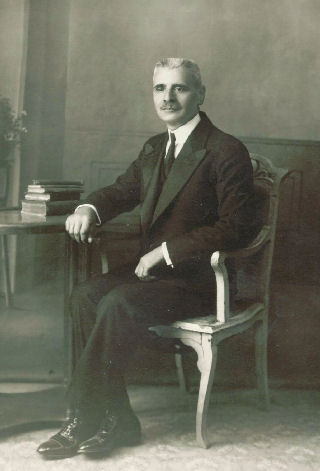 Scanned Family Photograph